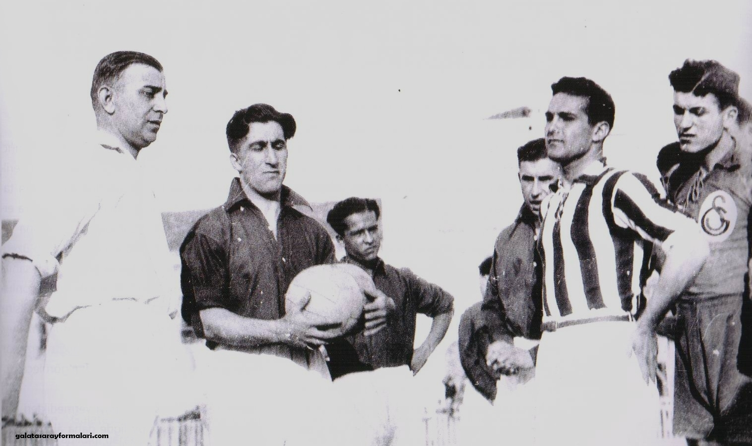 Galatasaray-Fenerbahçe match in the 1920s. From left to right: ?, Nihat (Bekdik), ?, ?, ?, Ulvi (Yenal)